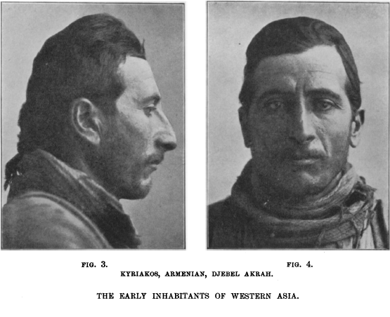 Photographs of an Armenian man